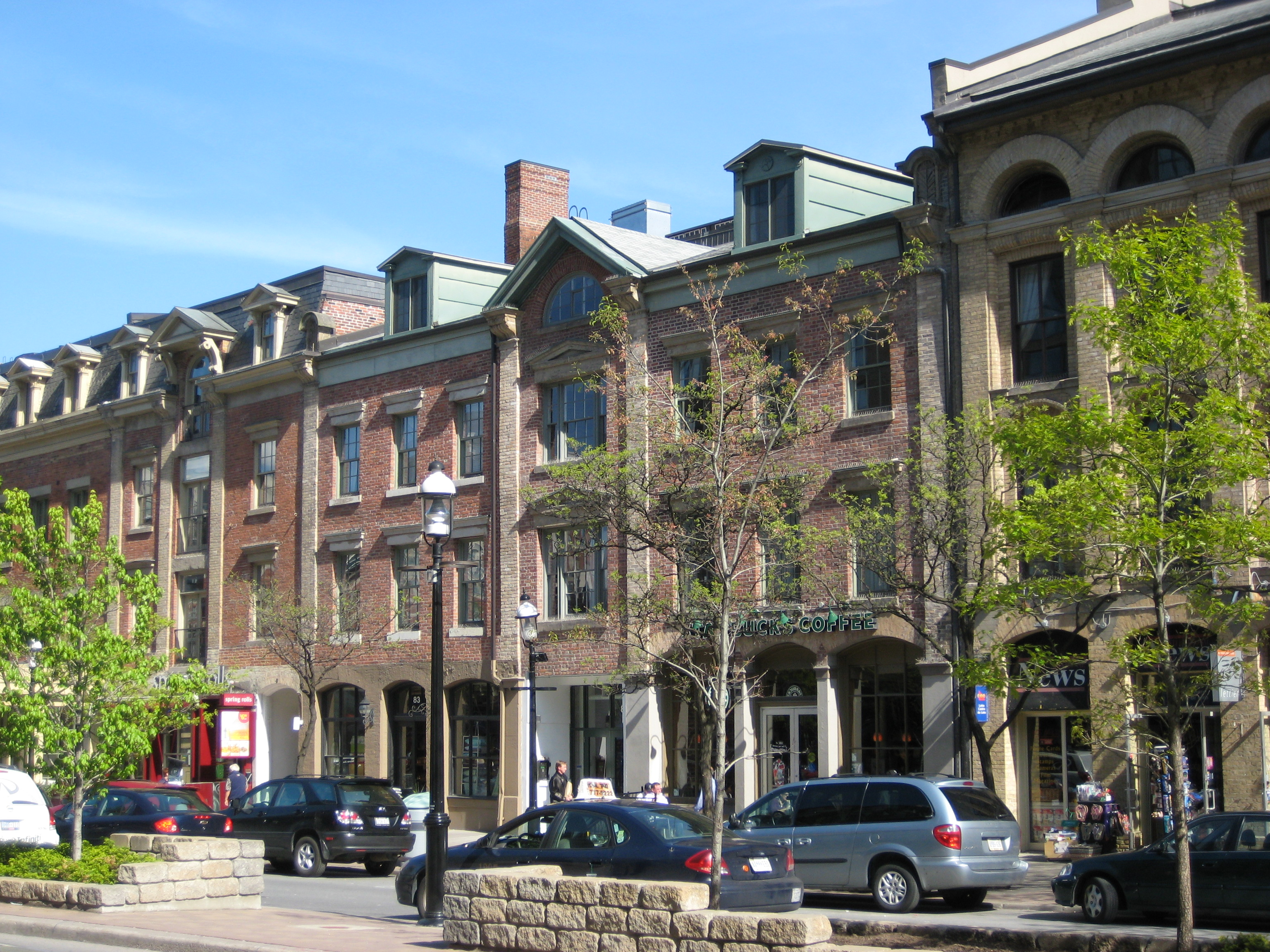 Thomas Helliwell Block